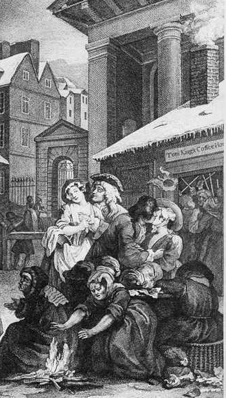 Detail of Tom King's Coffee House form Four Times of the Day